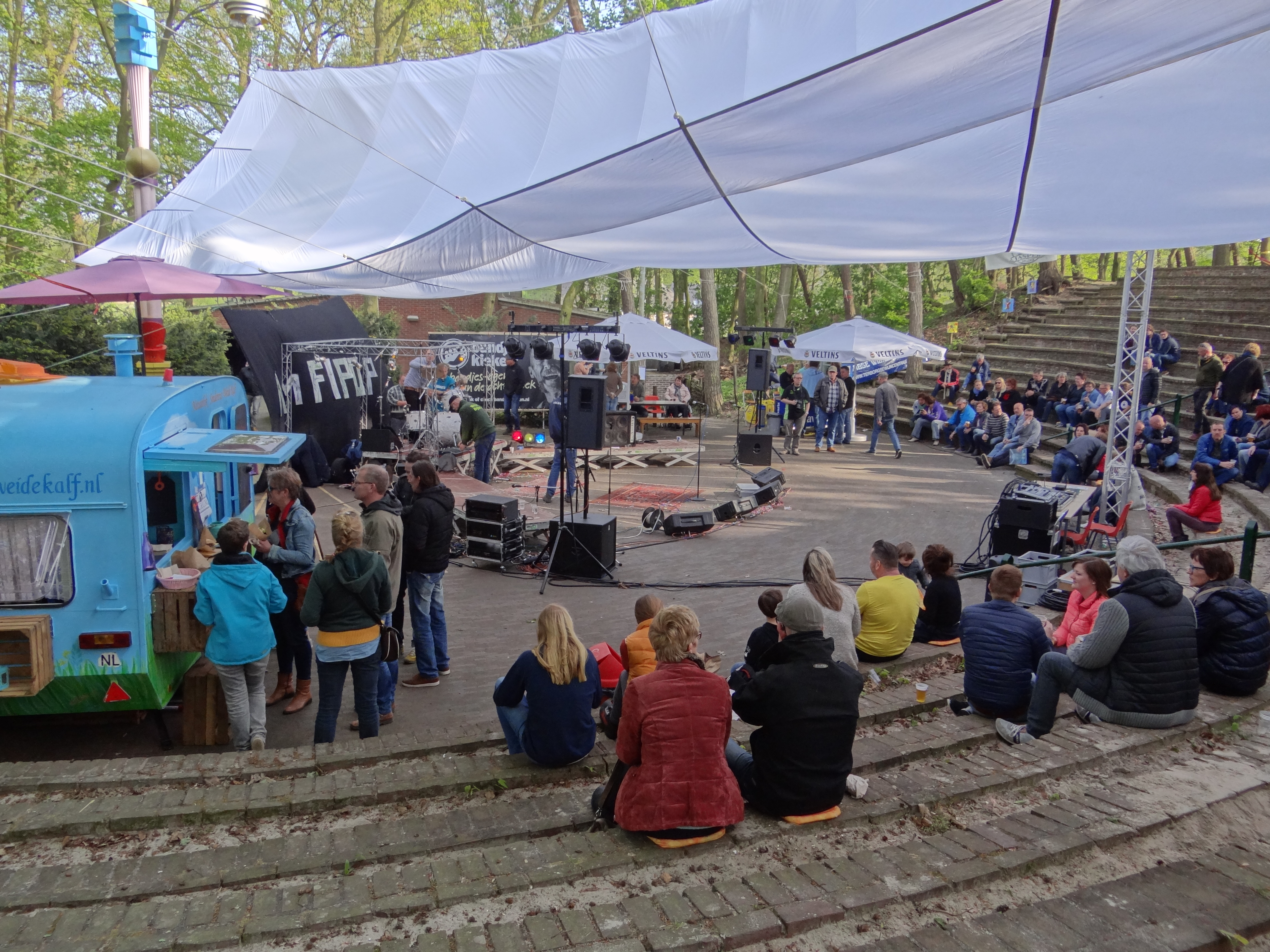 Amfipop 2007 at Gendringen, Netherlands